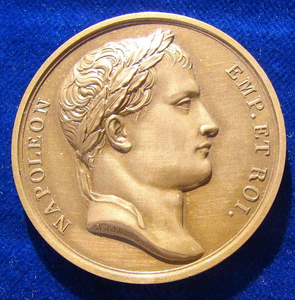 Napoleonic Wedding Medal Fontainebleau 1807 Wedding of the youngest brother of Napoleon to HRH Princess Catharina of Württemberg. Bronze medallion d.= 41 mm. Napoleon I, 1804 - 1814 & Jérôme Bonaparte, 1784 Ajaccio, Corsica - 1860 Villegenis, France & Princess Catharina Frederica of Württemberg, 1783 Saint Petersburg, Russian Empire - 1835 Lausanne, Switzerland. Head r., around: "NAPOLEON EMP. ET ROI."/ Hymen and Amor, 3 lines in exergue: "J. NAPOLEON C. DE WURTEMBERG. N MDCCCVII". Edge lettering: "1967 BRONZE". Julius 1794. Condition: Perfect UNCIRCULATED, no hidden problems.